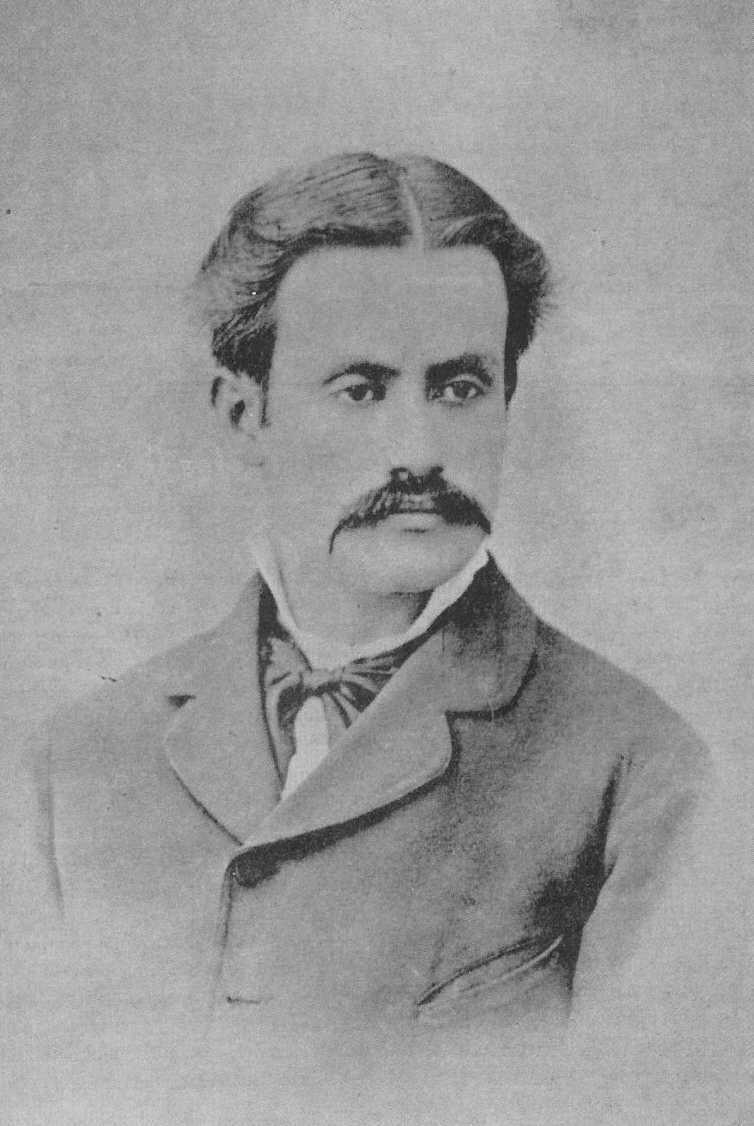 Cipriano Castro at the age of 25, 1884.